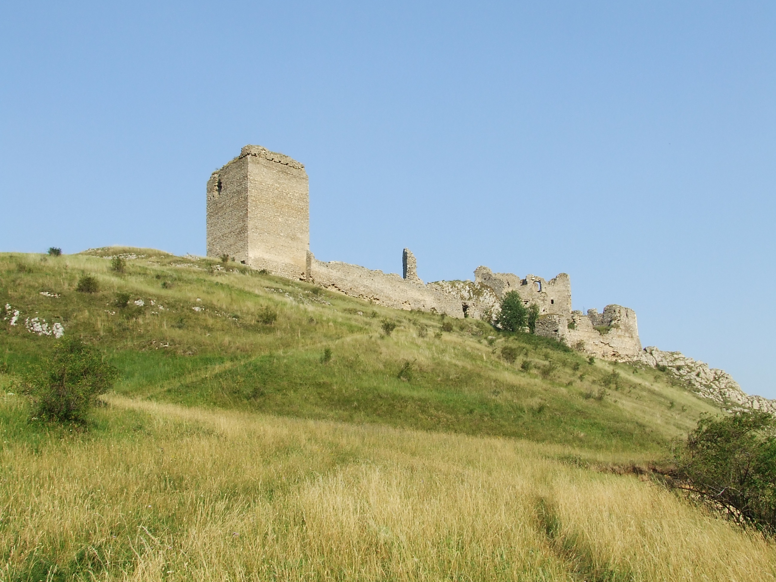 Castle of Colteşti/Torockószentgyörgy, Transylvania